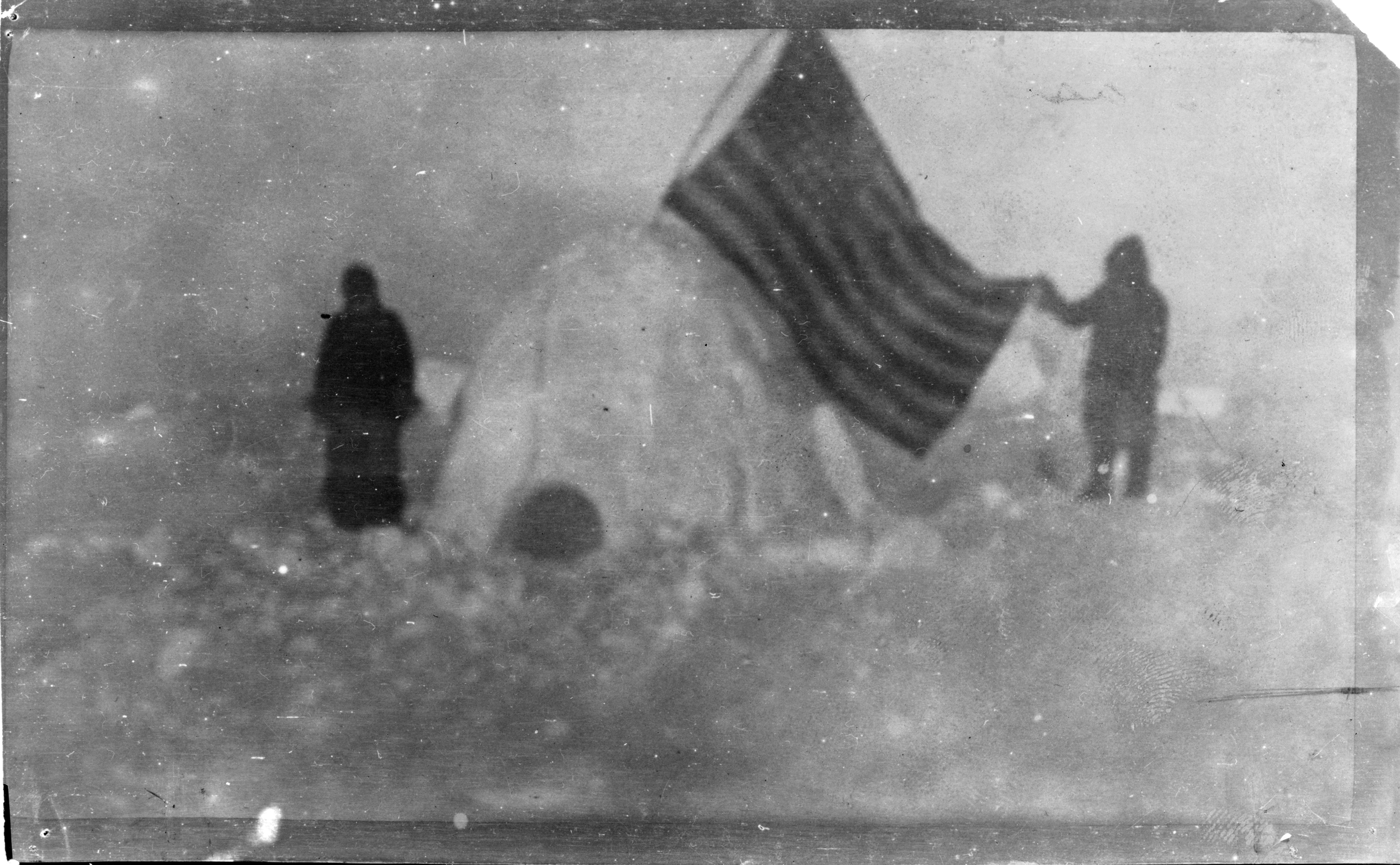 A photo of Frederick Cook's 1909 arctic expedition. Cook alleged that this photo was take near the North Pole. From that page: TITLE: Two members of Frederick Cook's expedition, with U.S. flag stuck in igloo, at expedition camp site, North Pole CALL NUMBER: LOT 13292, no. 12 [item] [P&P] REPRODUCTION NUMBER: LC-USZ62-127912 (b&w film copy neg.) MEDIUM: 1 photographic print : gelatin silver.